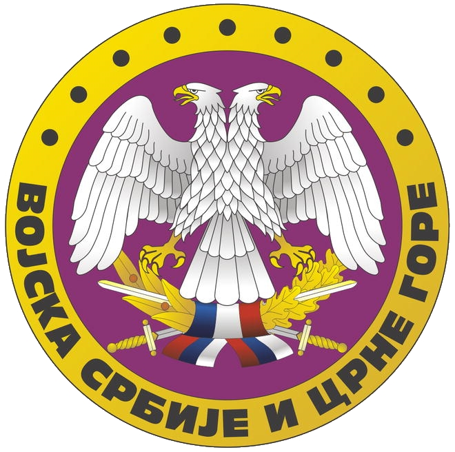 Emblem of the Serbia and Montenegro Armed Forces